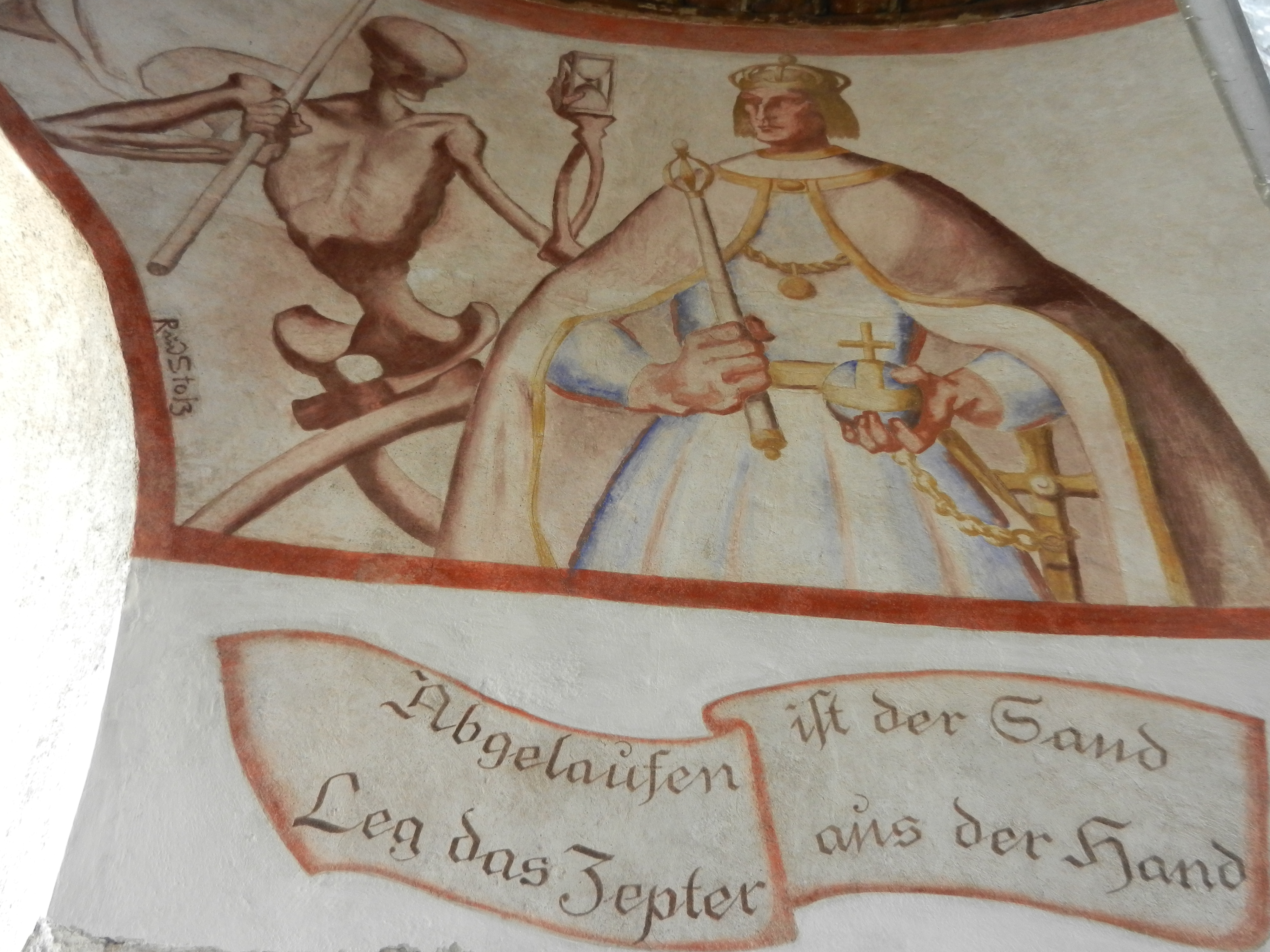 Fresco of Rudolf Stolz at the cemetery of Sexten